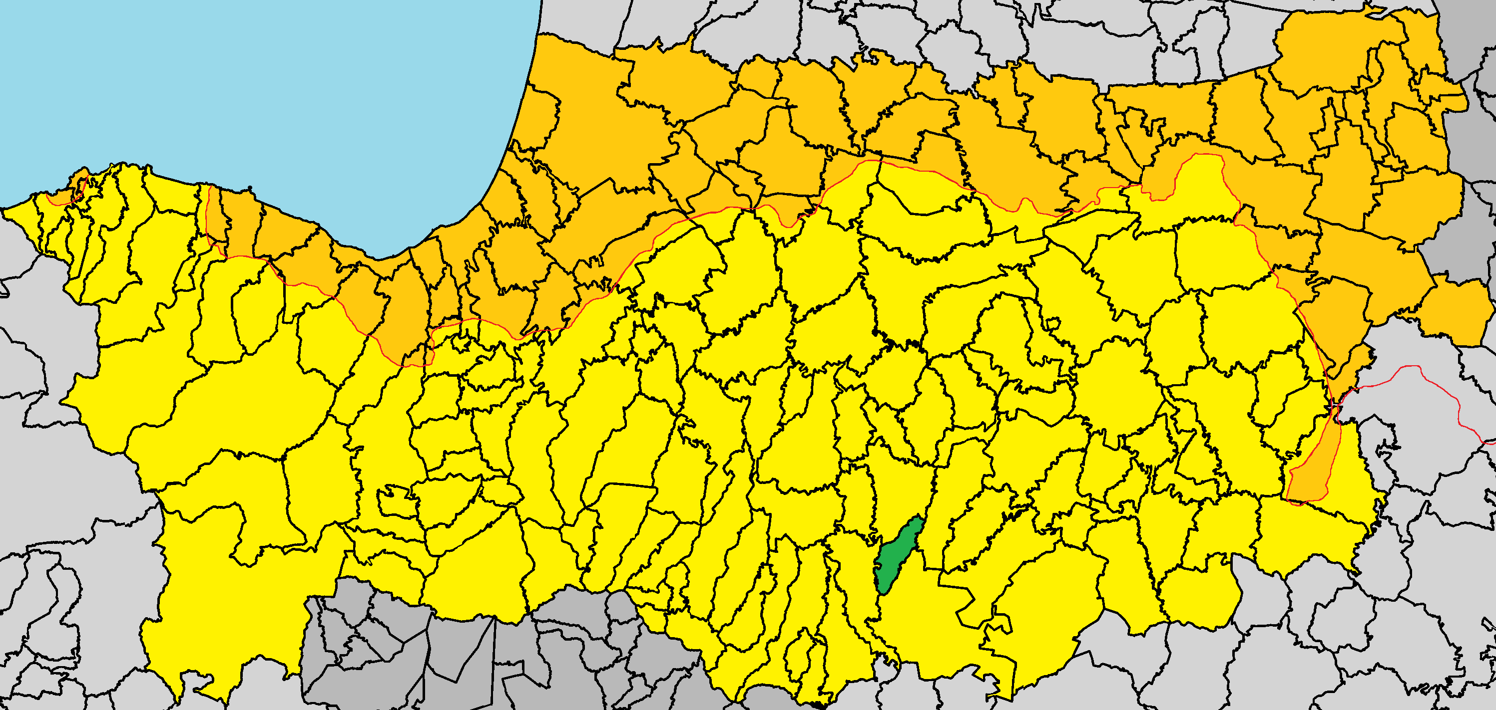 Fikardou in Nicosia District.